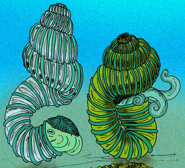 Crop of file in filename